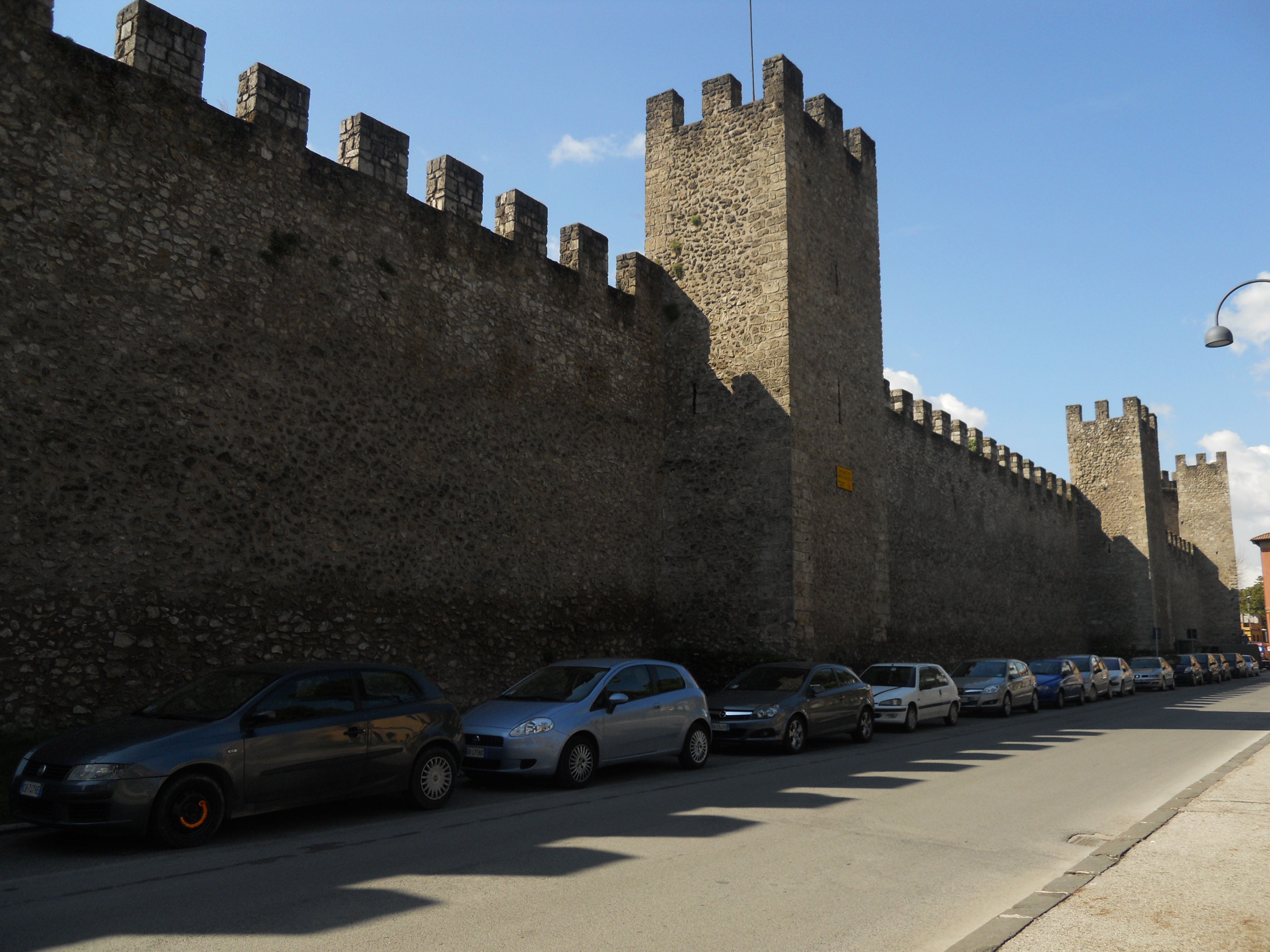 Walls of Rieti (Italy) - Guglielmo Marconi square.